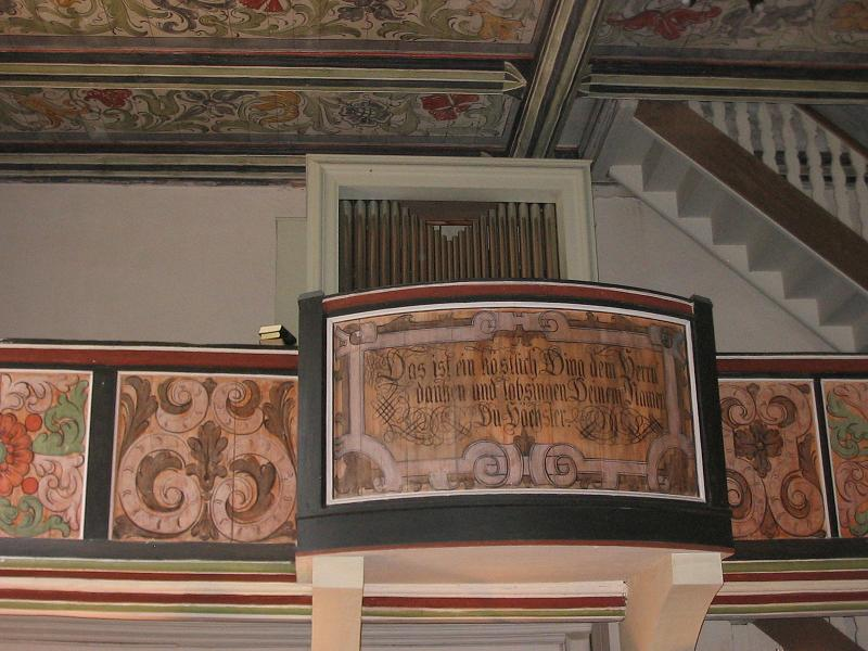 Organ loft of the stone church St. Briccius at the Castle Eisenhardt in Belzig, built probably in 14th century (a church before is mentioned in 1161). Belzig is the central town of the district Potsdam-Mittelmark in the state Brandenburg of Germany. Belzig appertains to the natural preserve Naturpark Hoher Fläming.